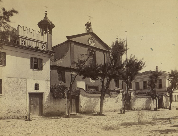 International Fair Plovdiv, Bulgaria, 1892